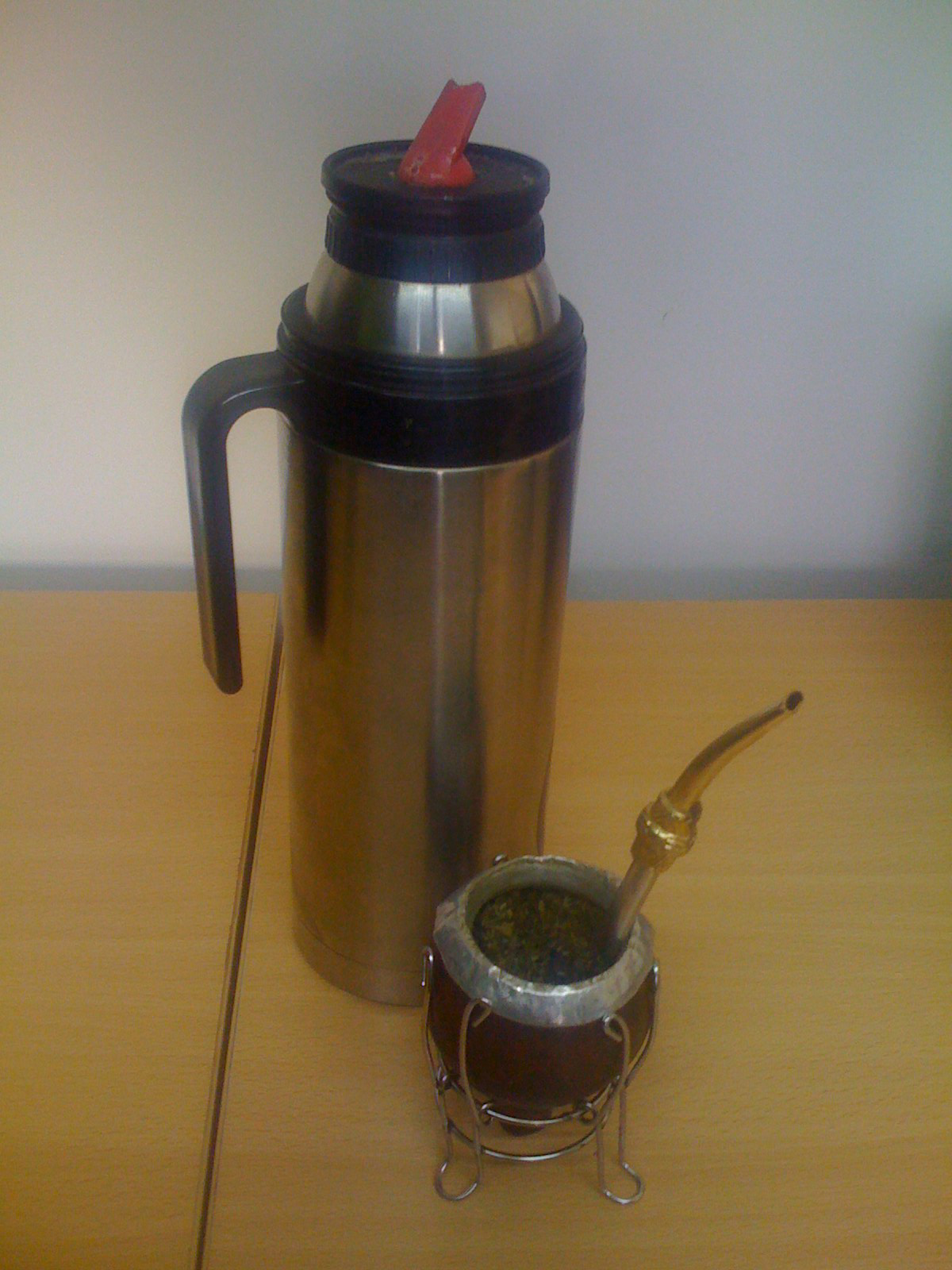 Typical Argentinian mate